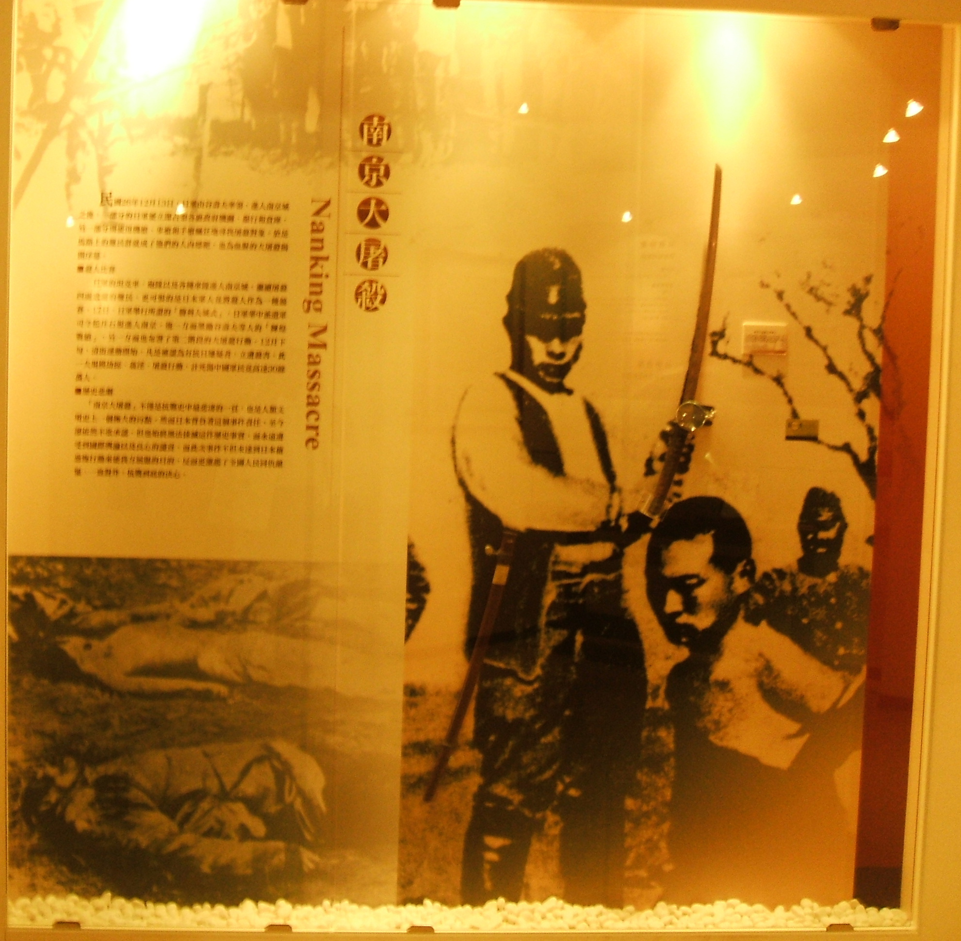 An exhibition panel in the Republic of China Armed Forces Museum at Taipei. It's exhibited with a "Type 98" guntō, which was donated by Mr. Wei Liang who is the son of Major-General Wei Bingwen (1904-1971), reading the words engraved on its blade: "Nanking Campaign Killing 107".